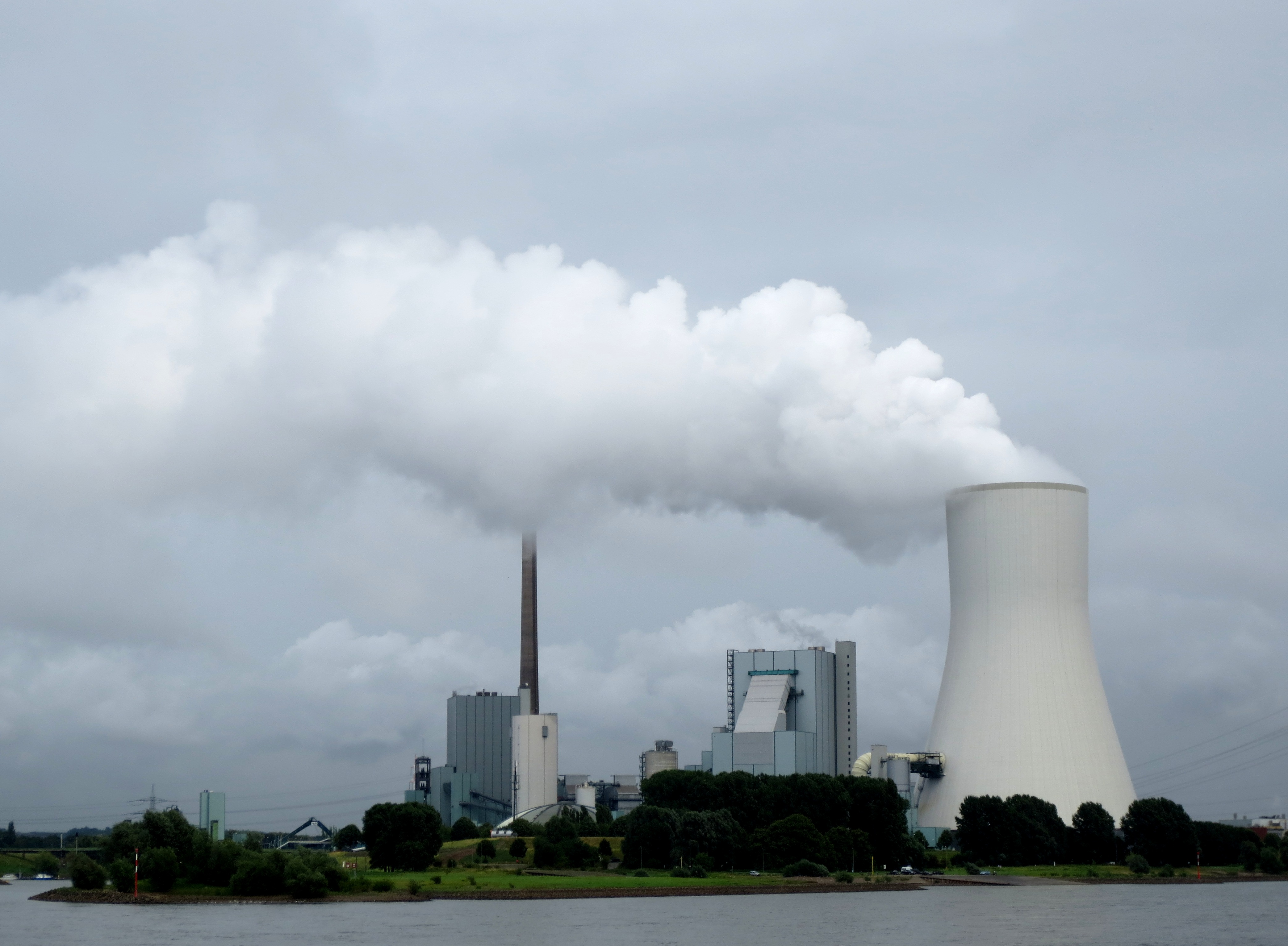 This picture shows the power station Duisburg Walsum in operation. Unit 9 (left-regular chimney) and unit 10 (right-using cooling tower as chimney) are both in operation.